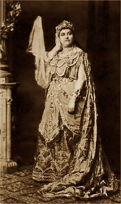 Soprano Amalie Materna as the Queen of Saba in Goldmark's Die Königin von Saba, probably Vienna 1875.